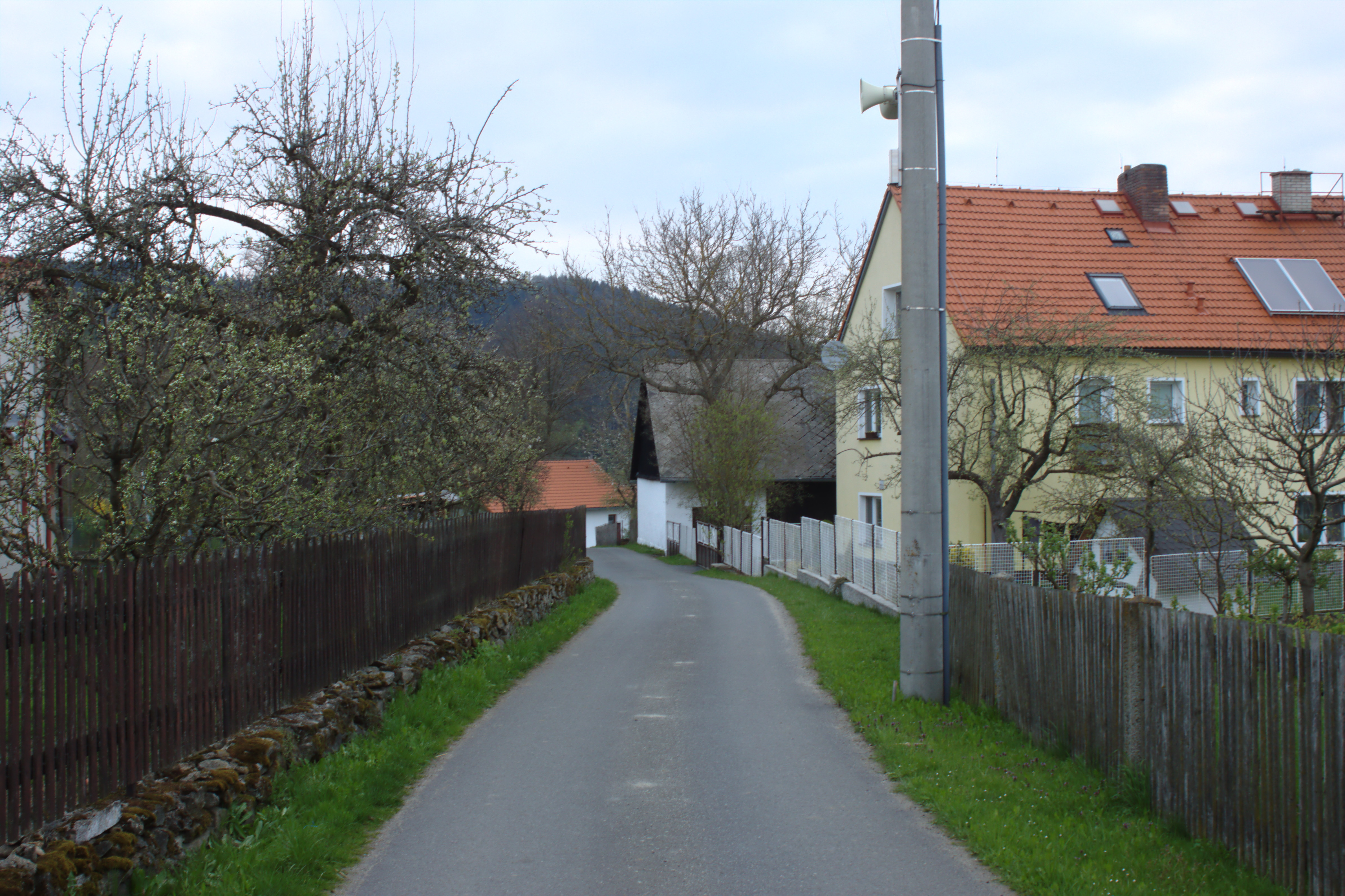 A road to the major common in the village of Tržek, Plzeň Region, CZ